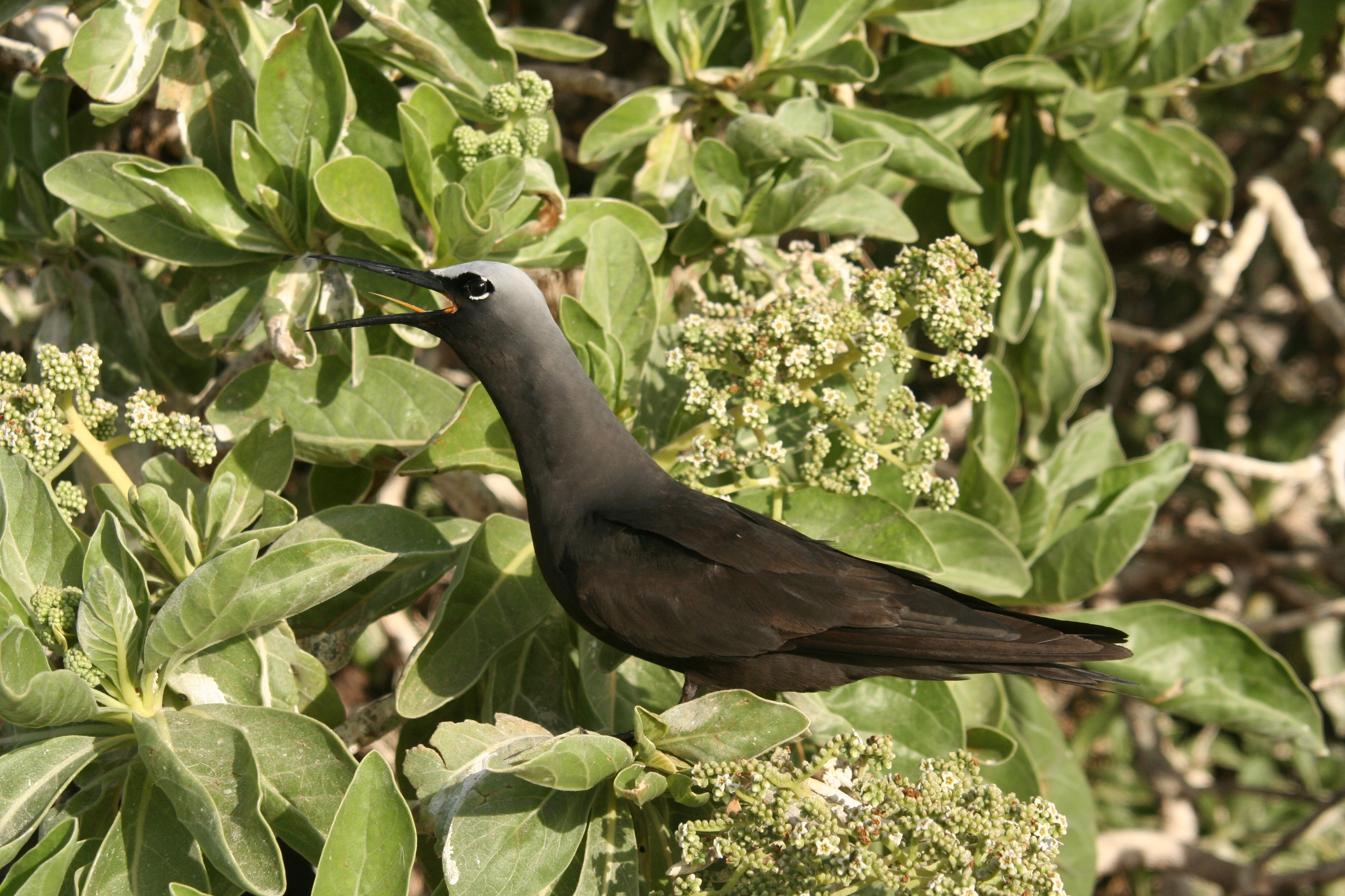 Black Noddy Anous minutus in Tournefortia sp. Taken on Tern Island, French Frigate Shoals